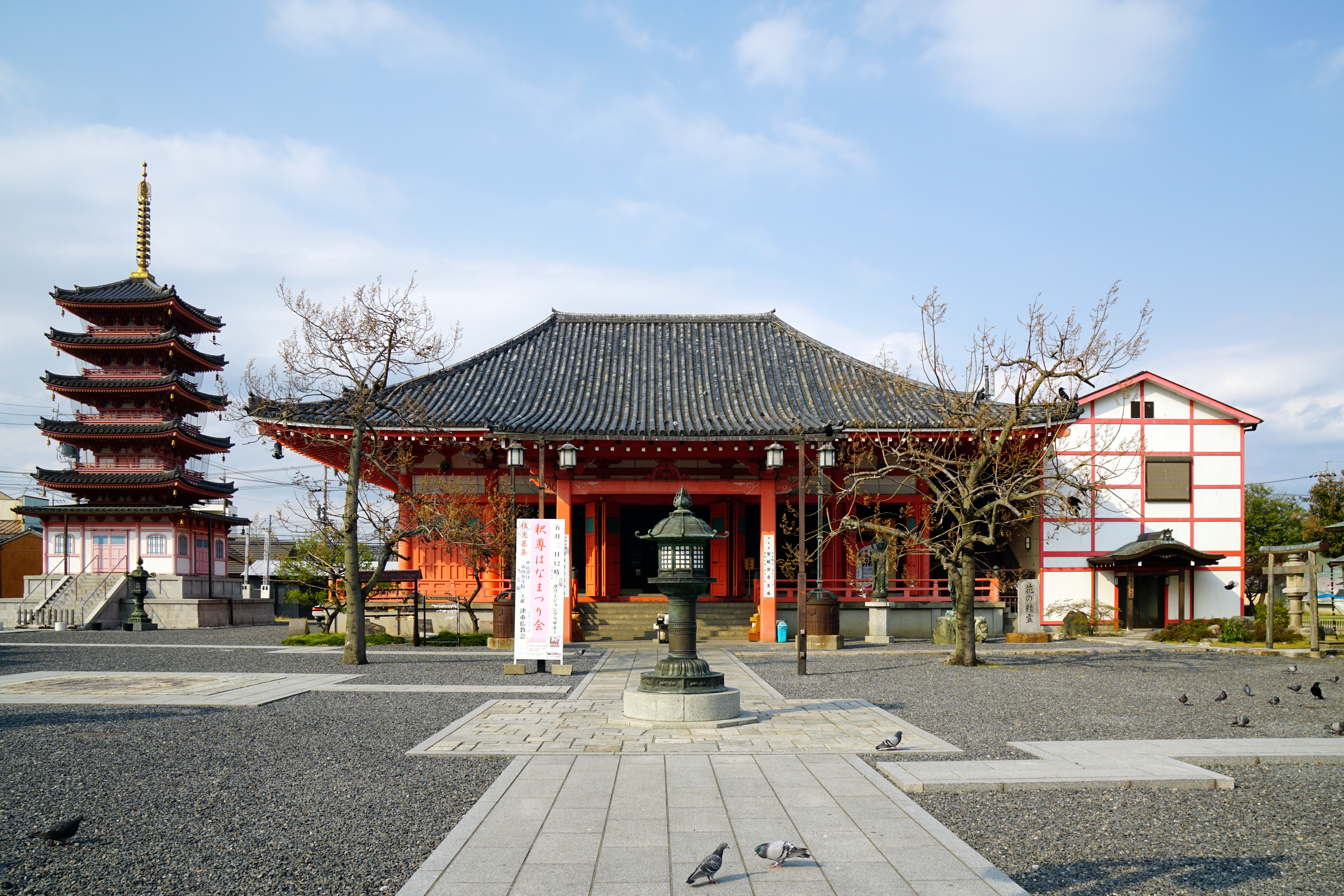 Tsu Kannon in Tsu, Mie prefecture, Japan.